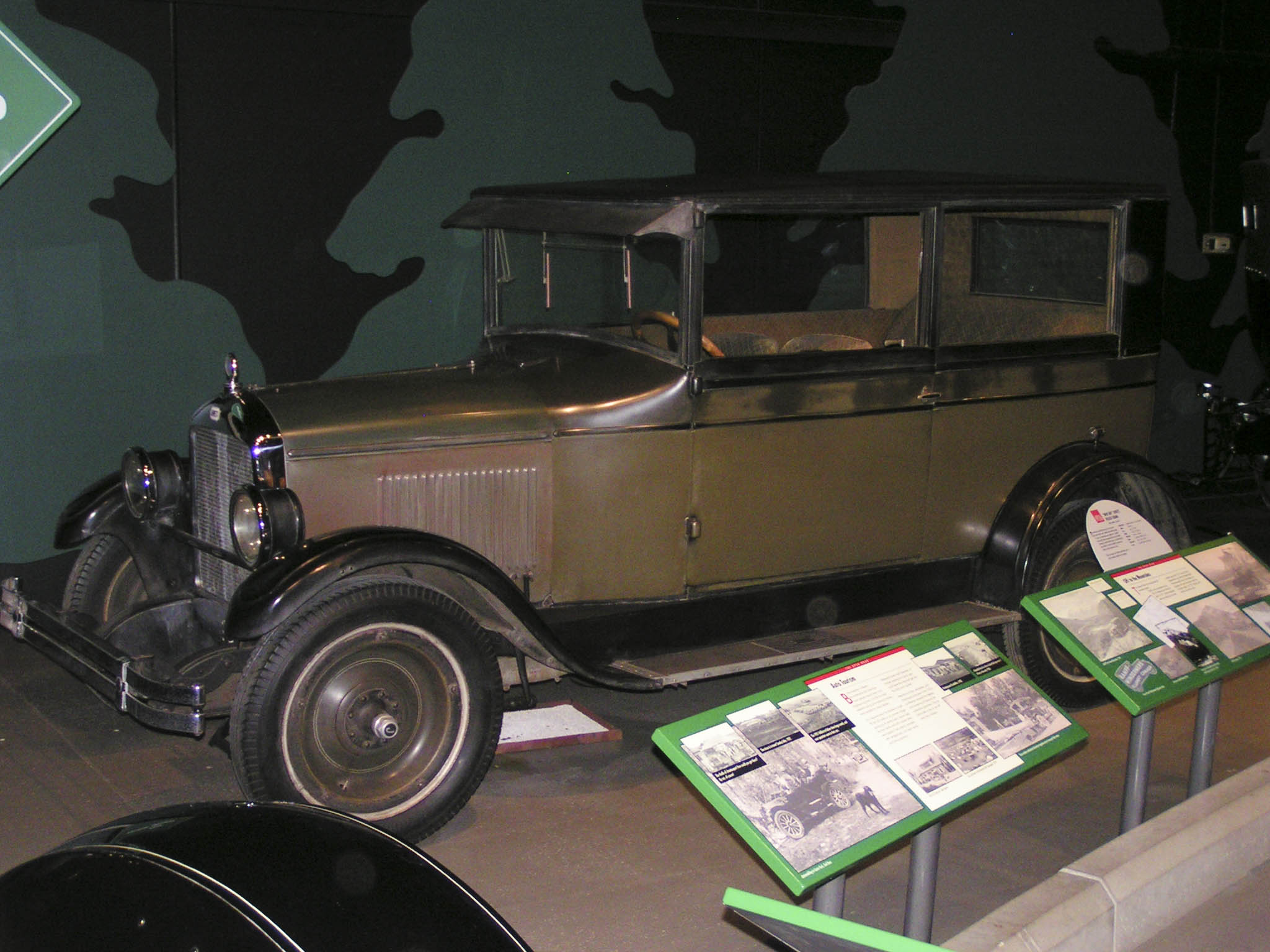 1926 Jewett New Day Six Deluxe coach, built by the Paige-Detroit Motor Car Company